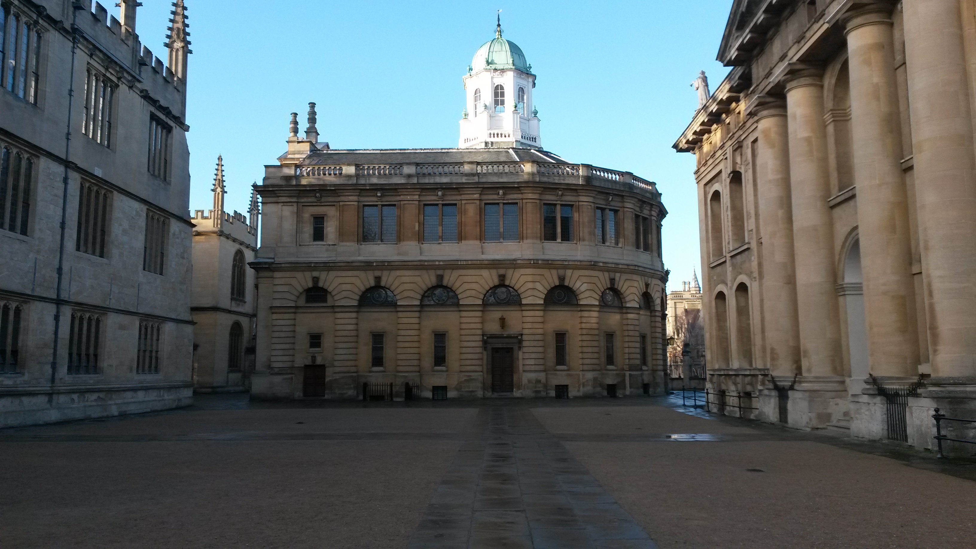 The east face of the Sheldonian Theatre.